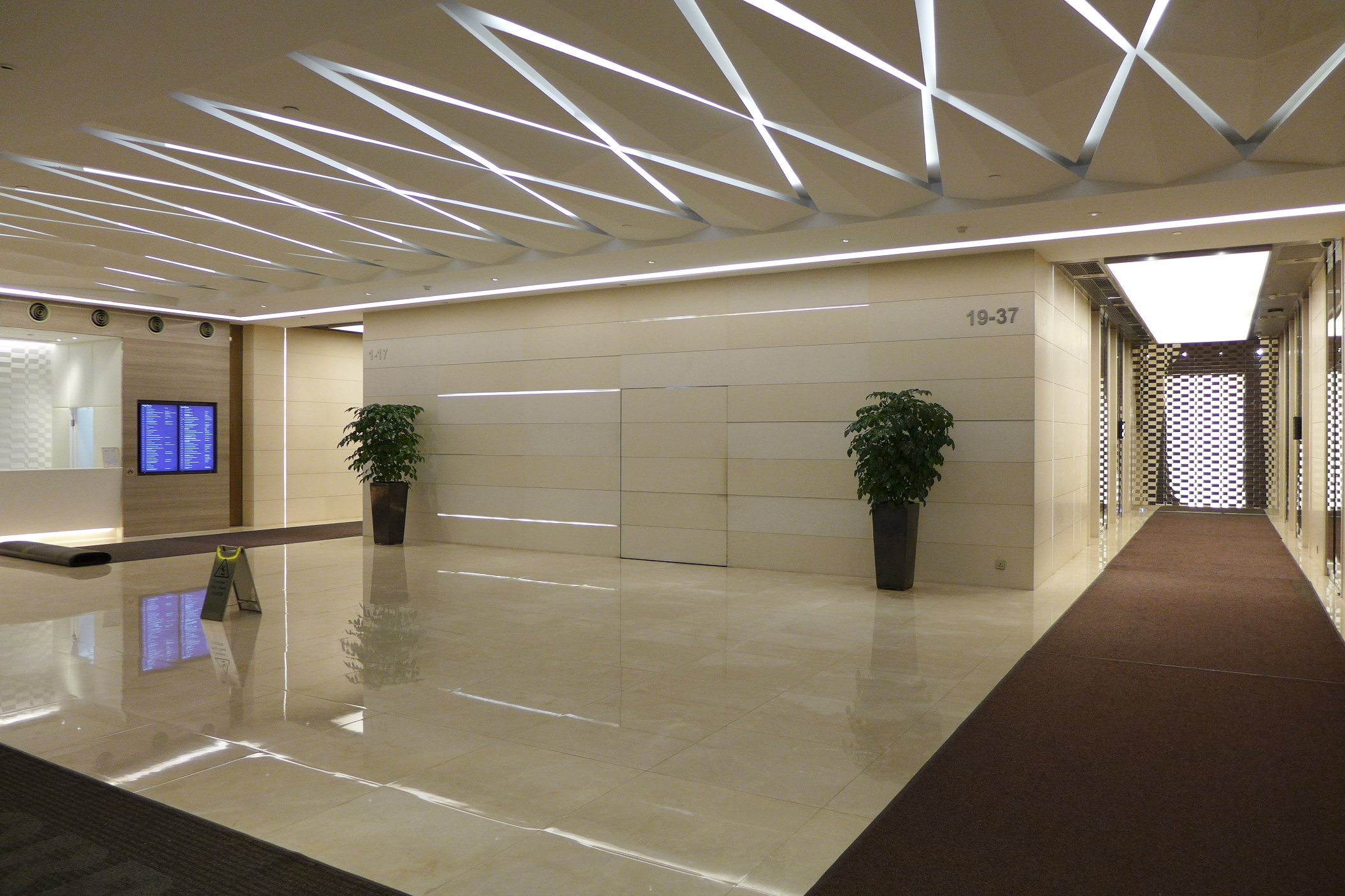 Citicorp Centre Lobby